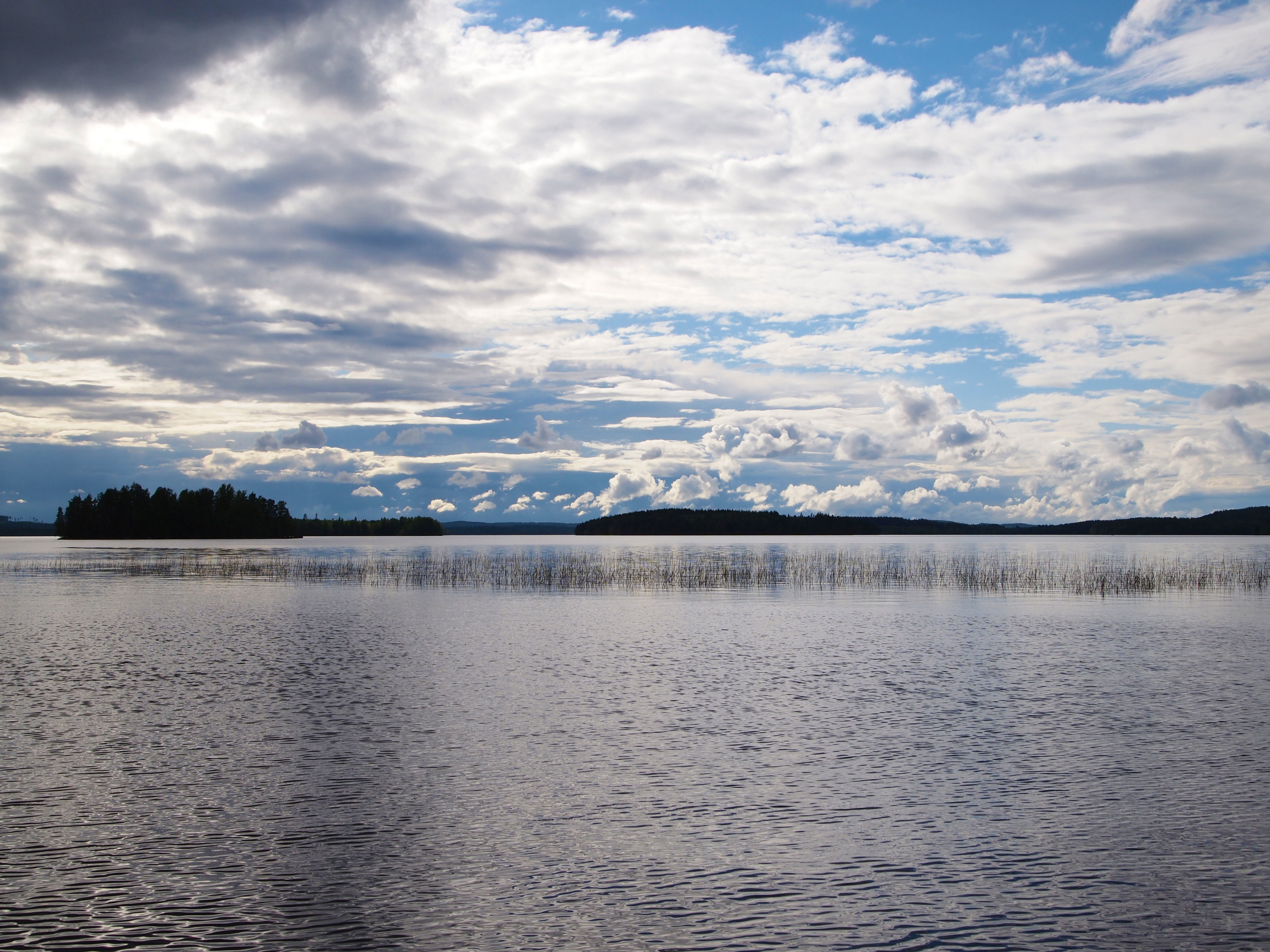 View to lake Muuratjärvi in Muurame. This photograph was taken with an Olympus E-PL1